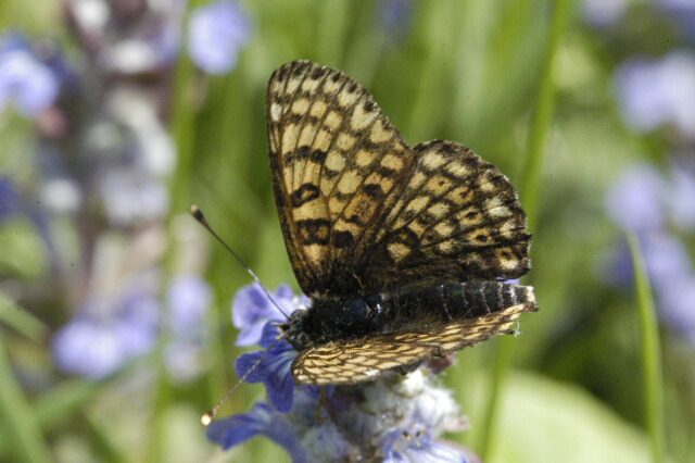 Picture taken in Commanster, Belgian High Ardennes . Species: Melitaea cinxia